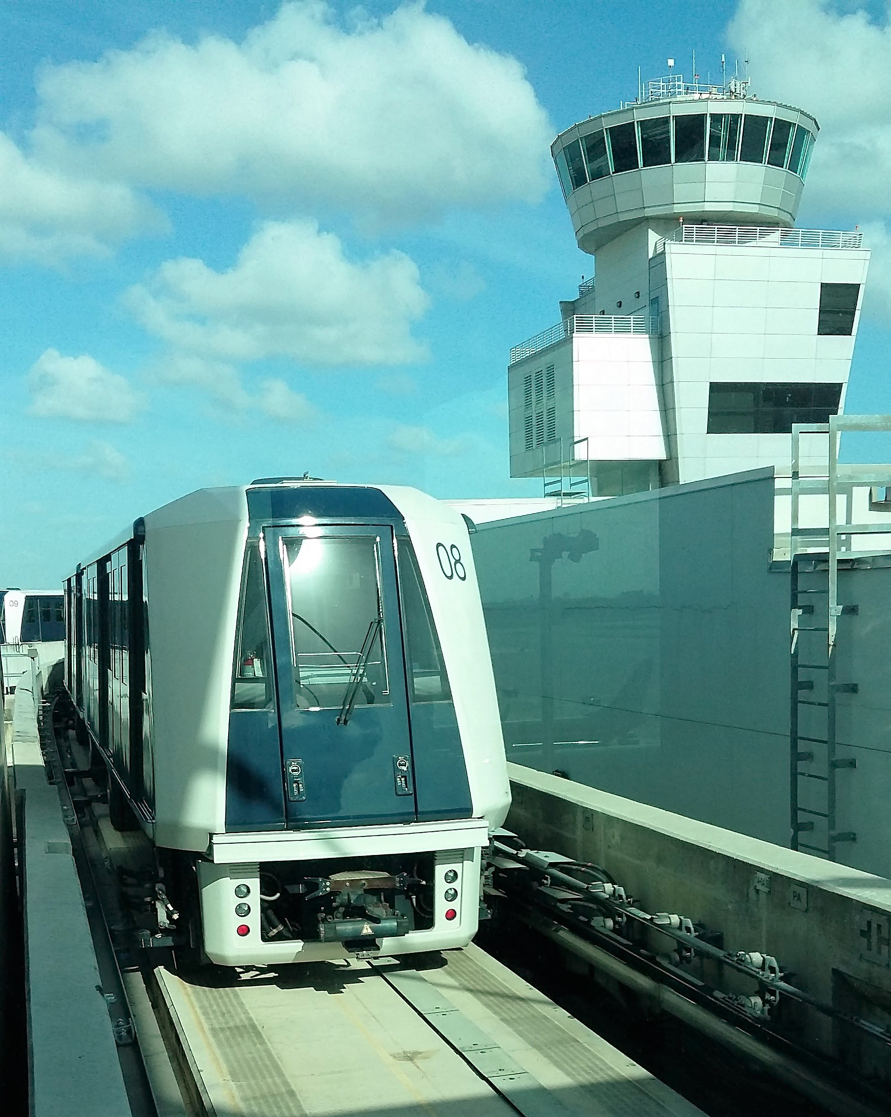 Skytrain leaving Station 3 near control tower on Concourse D at Miami International Airport